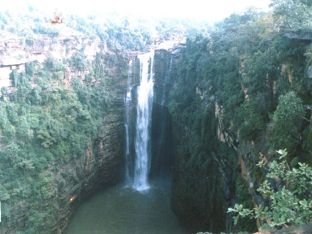 Telhar waterfall is located near in Kaimur Hills in the Kaimur district, Bihar, India